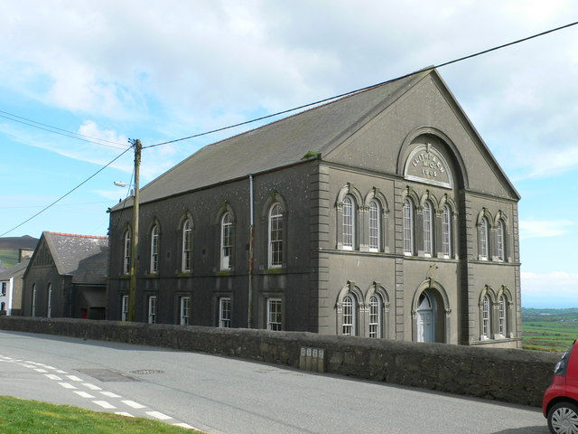 Methodist Chapel, Llithfaen By the beginning of the twentieth century, the old chapel in Llithfaen was too small and either had to be enlarged or rebuilt. A decision was made to build a new chapel and add a vestry. Evan Roberts 'the Revivalist' held the first religious service in the new chapel on 12th December, 1905. The chapel is a listed building as it has a curved gallery for the choir behind the Deacon's Seat and the pulpit - this is unique in Wales.